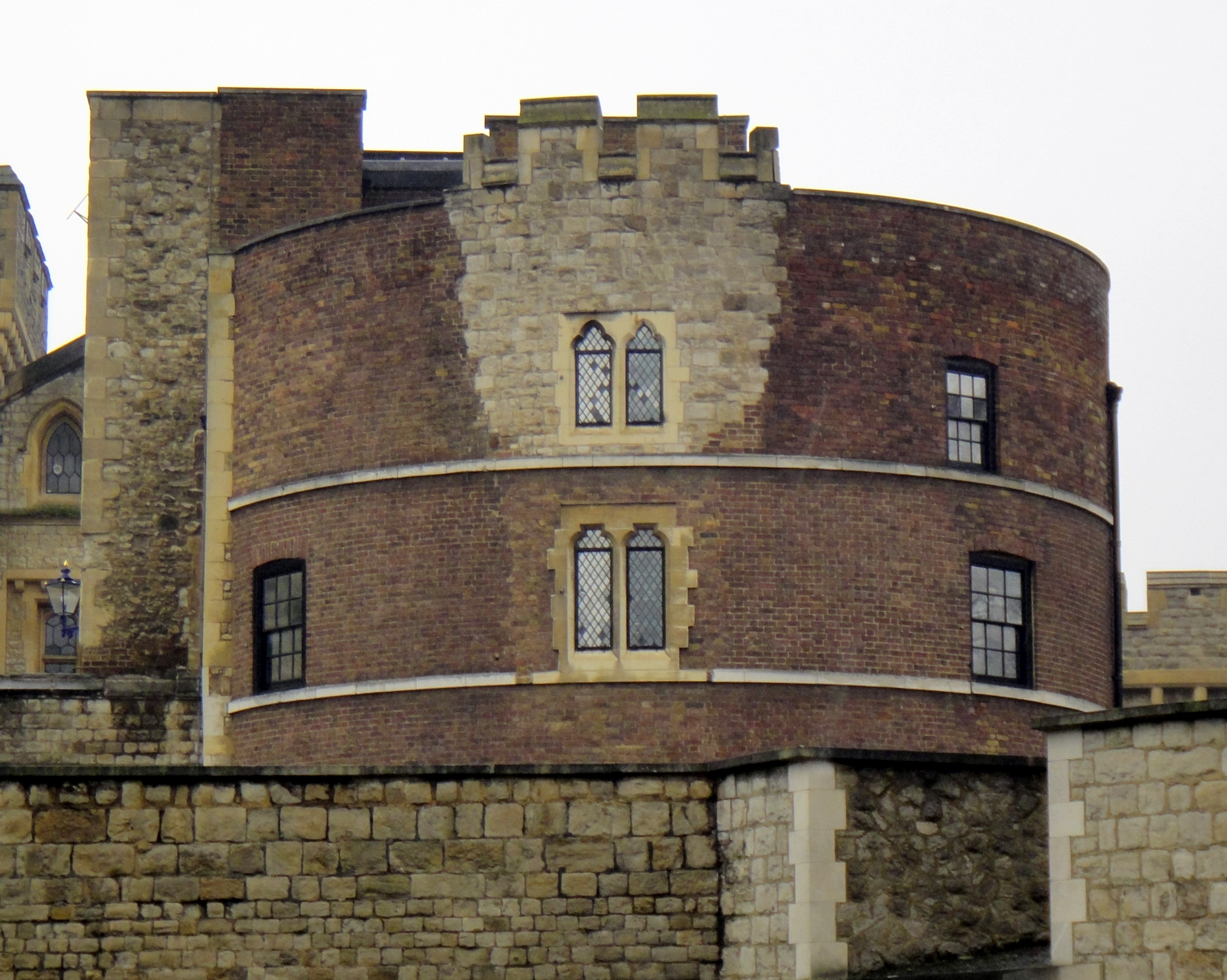 Martin Tower, Tower of London